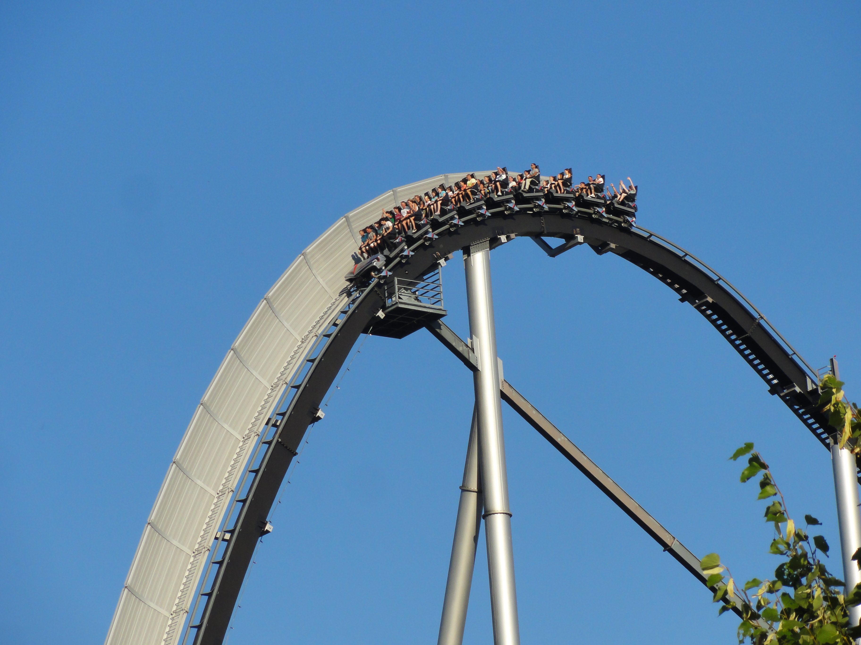 Silver Star, Europa-Park, Rust, Baden-Württemberg, Germany.